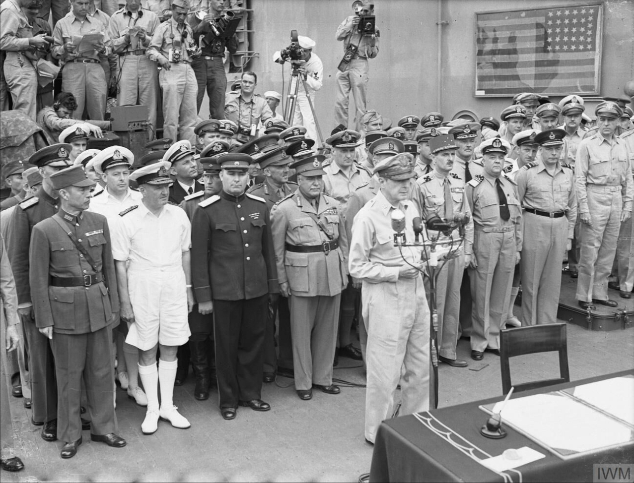 Japanese Surrender at Tokyo Bay, 2 September 1945 General of the Army, Douglas MacArthur reads the surrender terms to the Japanese representatives on board USS MISSOURI in Tokyo Bay.